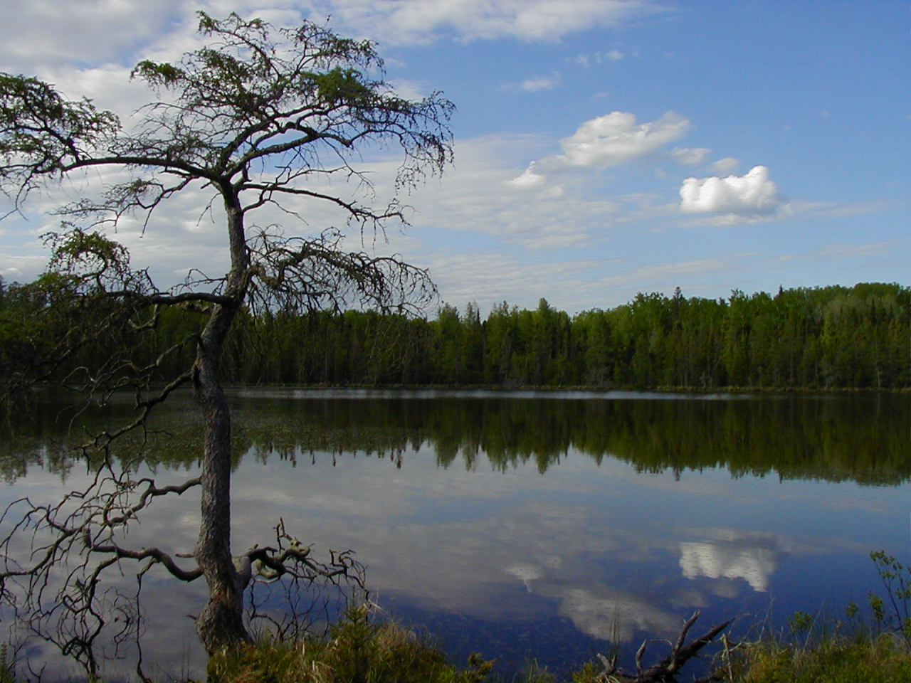 Hidden Lake North of Bemidji State Campground